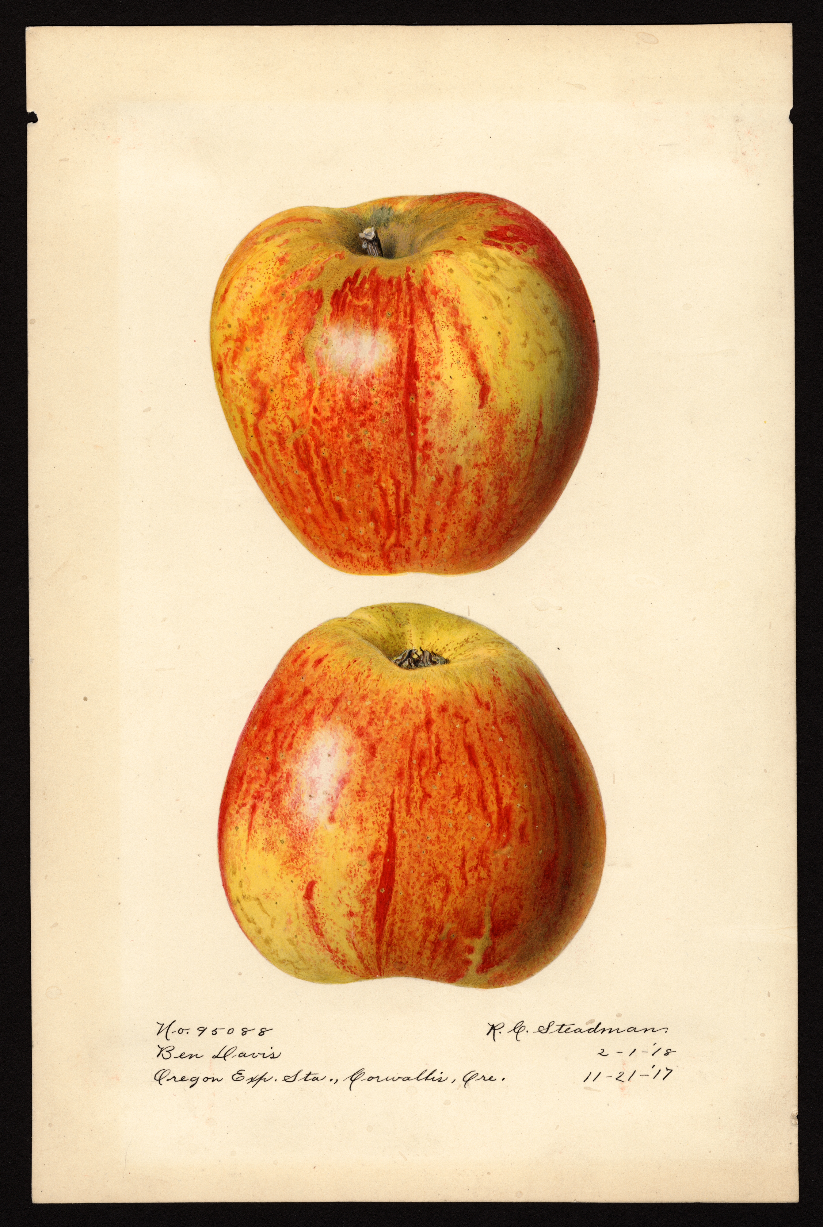 Image of the Ben Davis variety of apples (scientific name: Malus domestica), with this specimen originating in Corvallis, Benton County, Oregon, United States. Source: U.S. Department of Agriculture Pomological Watercolor Collection. Rare and Special Collections, National Agricultural Library, Beltsville, MD 20705.